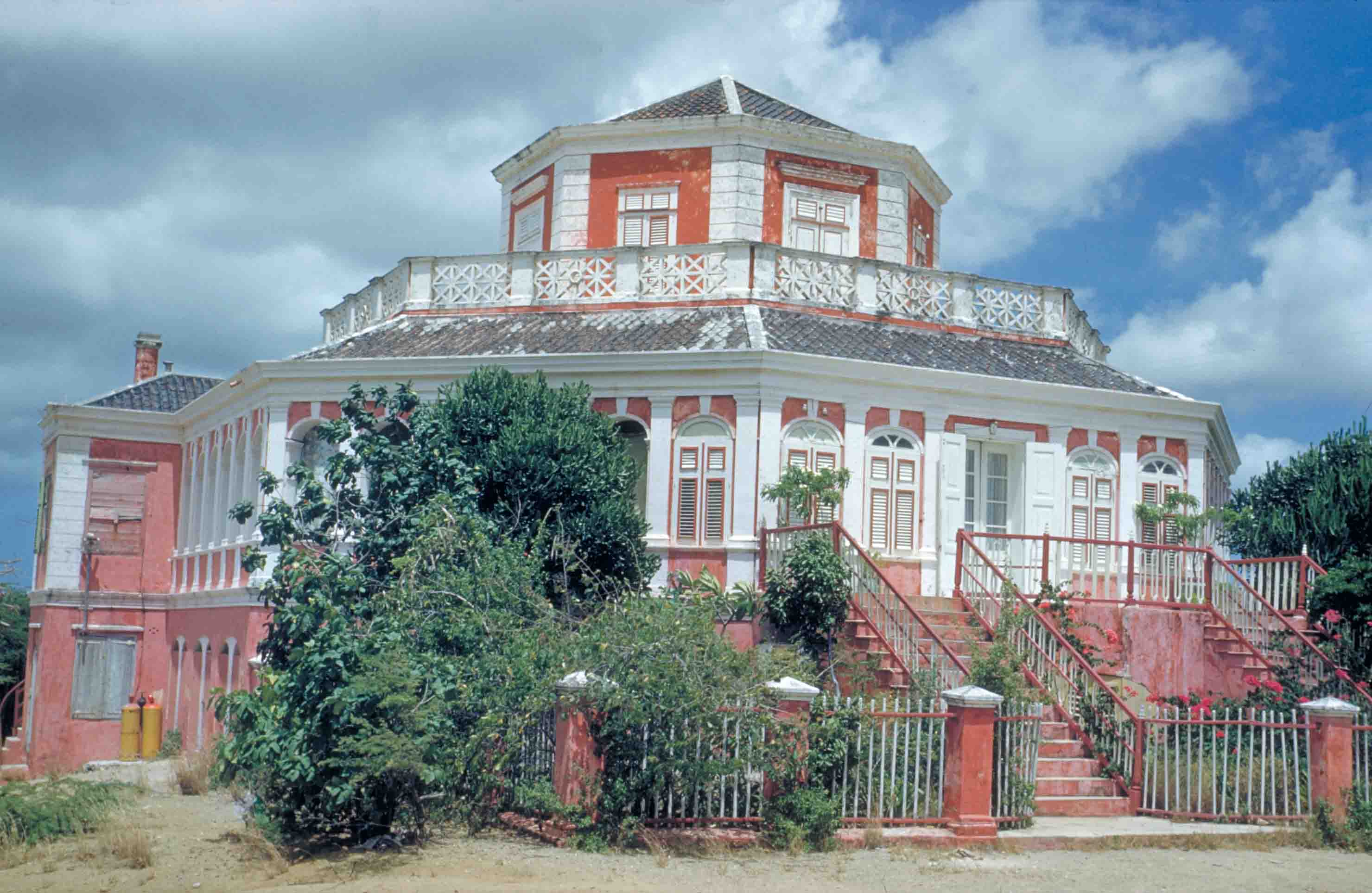 The house called Landhuis Groot Davelaar in Curaçao, somewhere in the 1950s probably. Papiamentu: Groot Davelaar.